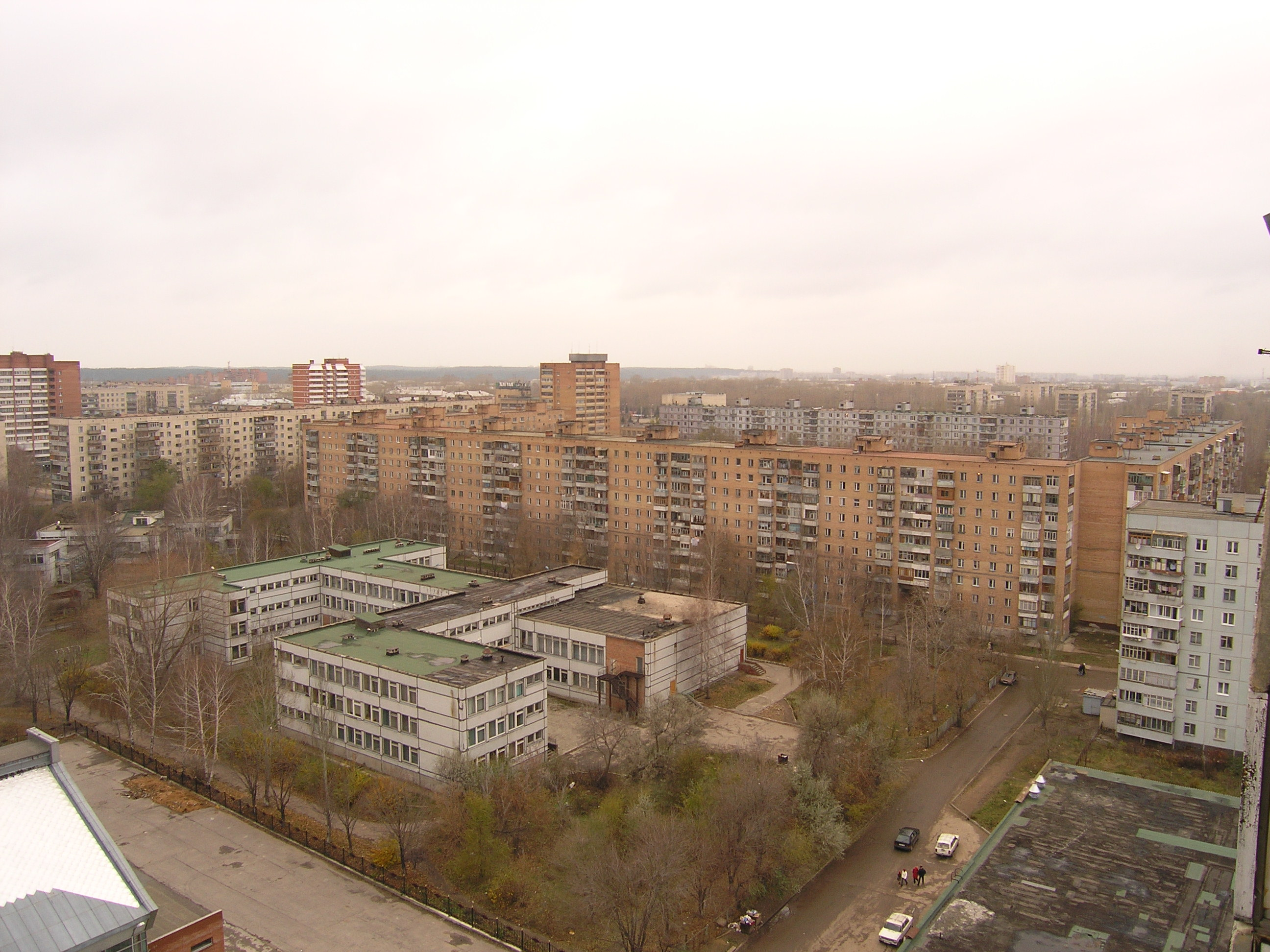 71 kvartal, Togliatti, Russia